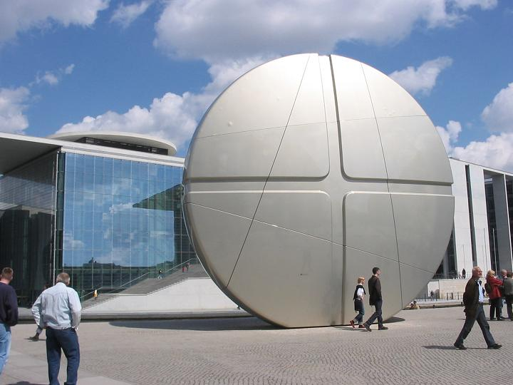 „Milestones of Medicine“, second sculpture (from six) of the Berliner Walk of Ideas on the occasion of 2006 FIFA World Cup Germany. Unveiling: 30 March 2006 on Friedrich-Ebert-Platz (place nearby Reichstag), Berlin-Mitte. On the left side the Marie-Elisabeth-Lüders-Haus with the library of parliament